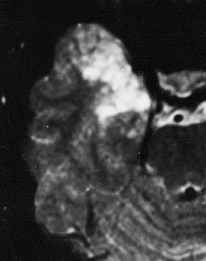 CNS: DYSEMBRYOPLASTIC NEUROEPITHELIAL TUMOR Magnetic resonance imaging in the T2 mode visualizes the characteristic intracortical nodules.